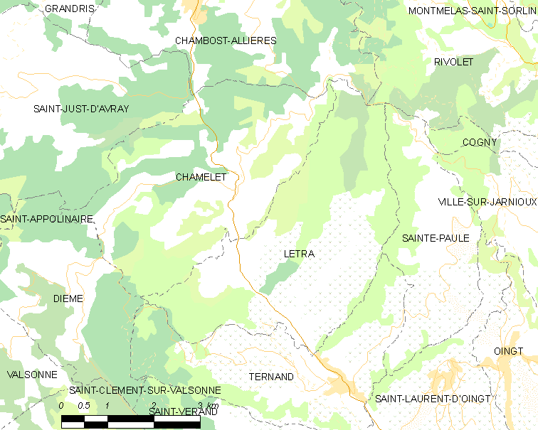 Map of French municipality